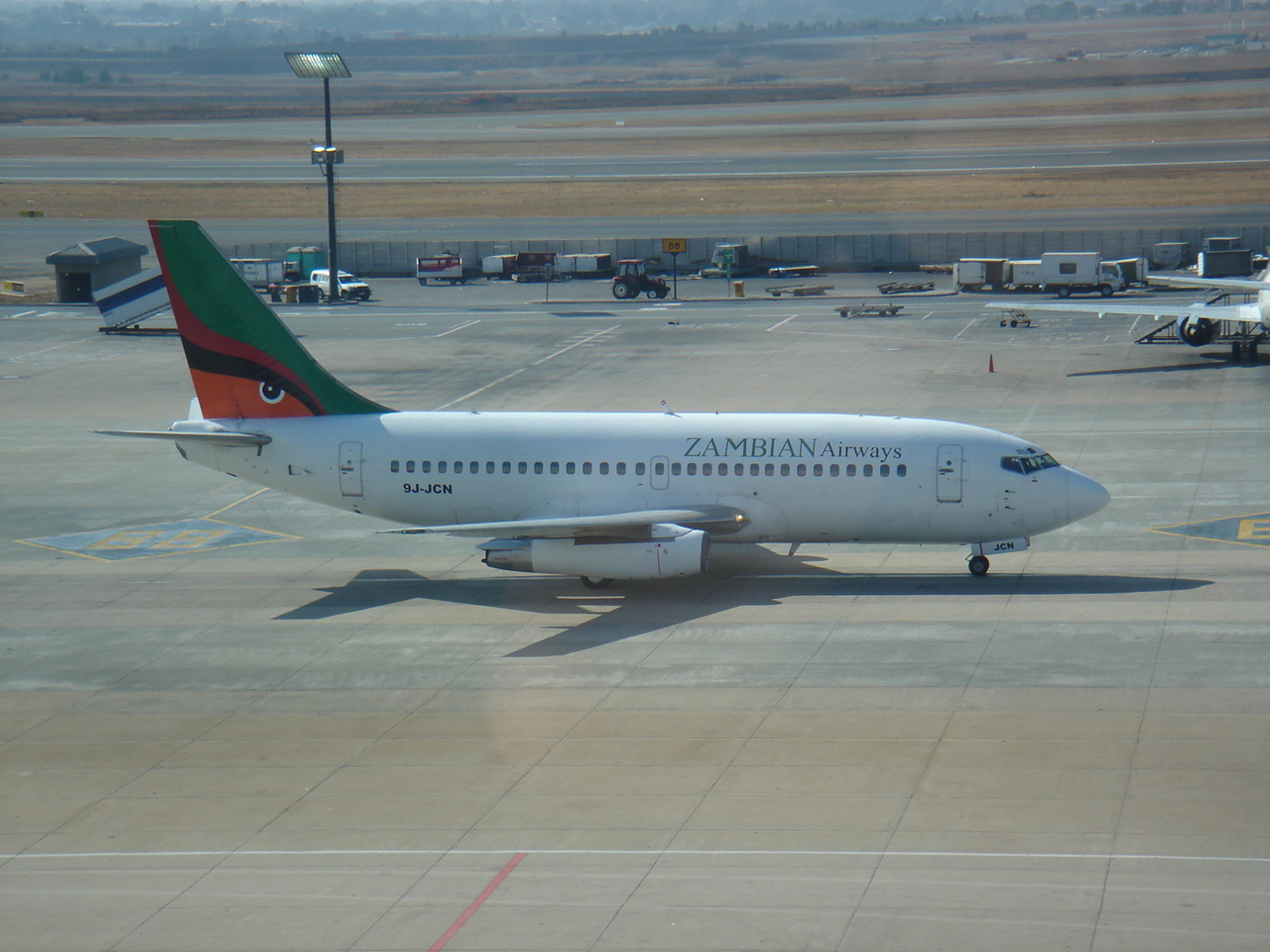 A Boeing 737 (9J-JCN) of Zambian Airways at OR Tambo International Airport, Johannesburg, South Africa.